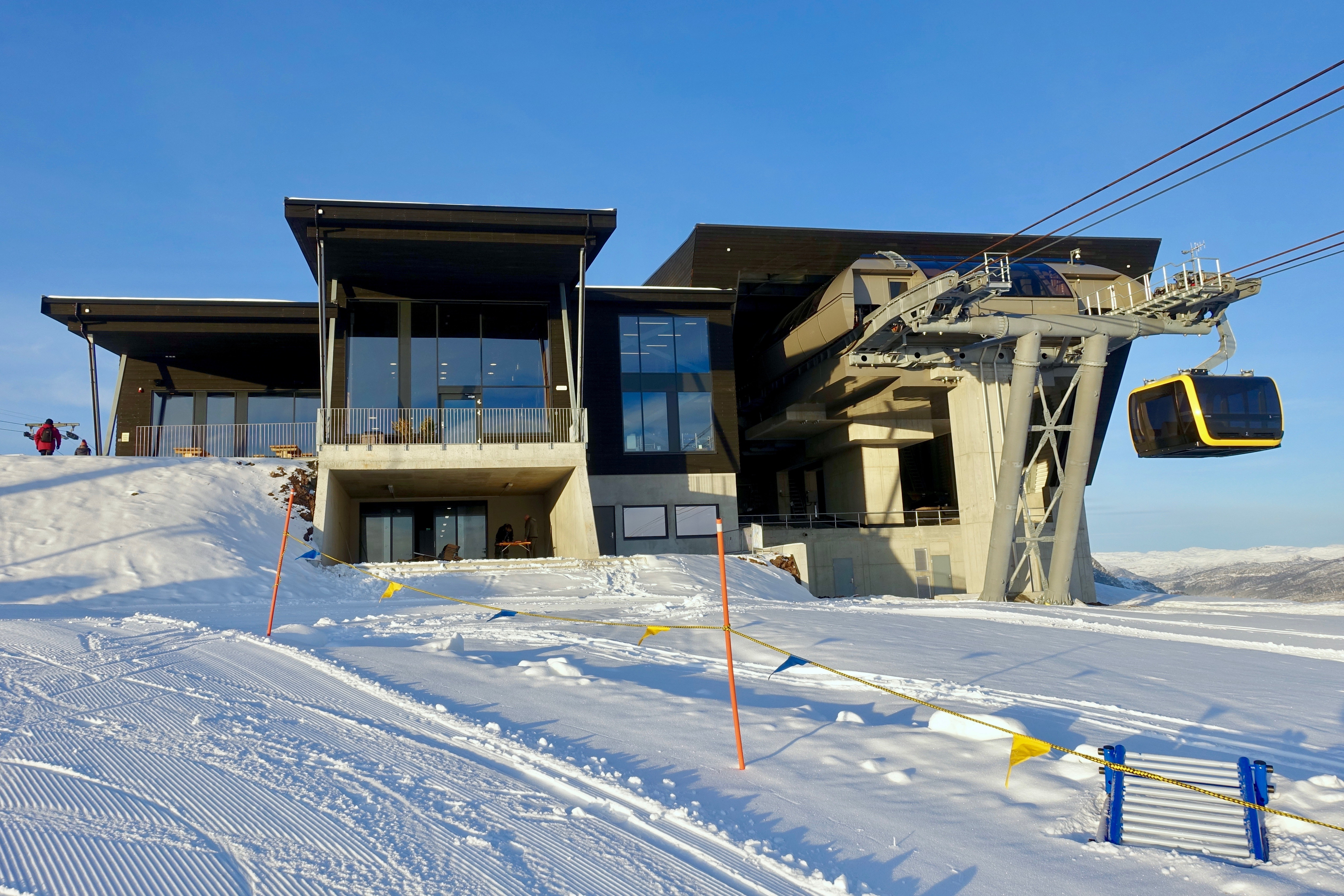 The top station of the Voss Gondol, an aerial passenger lift (gondolheis, taubane) opened in 2019 in the small town of Vossevangen in Voss municipality in the western part of Norway. The cableway goes from the Voss Railway Station to the summit of Hangur/Hanguren mountain 820 metres above sea level, north of the town, with terminal for boarding and embarking, the Hangurstoppen Restaurant, ski resort, ski lifts, hiking aera, paragliding site, etc. The gondola lift has nine cabins. Photo taken on November 20th, 2019. The early afternoon sunset colours the snowy landscape yellow and blue due to the low sun and long shadows.